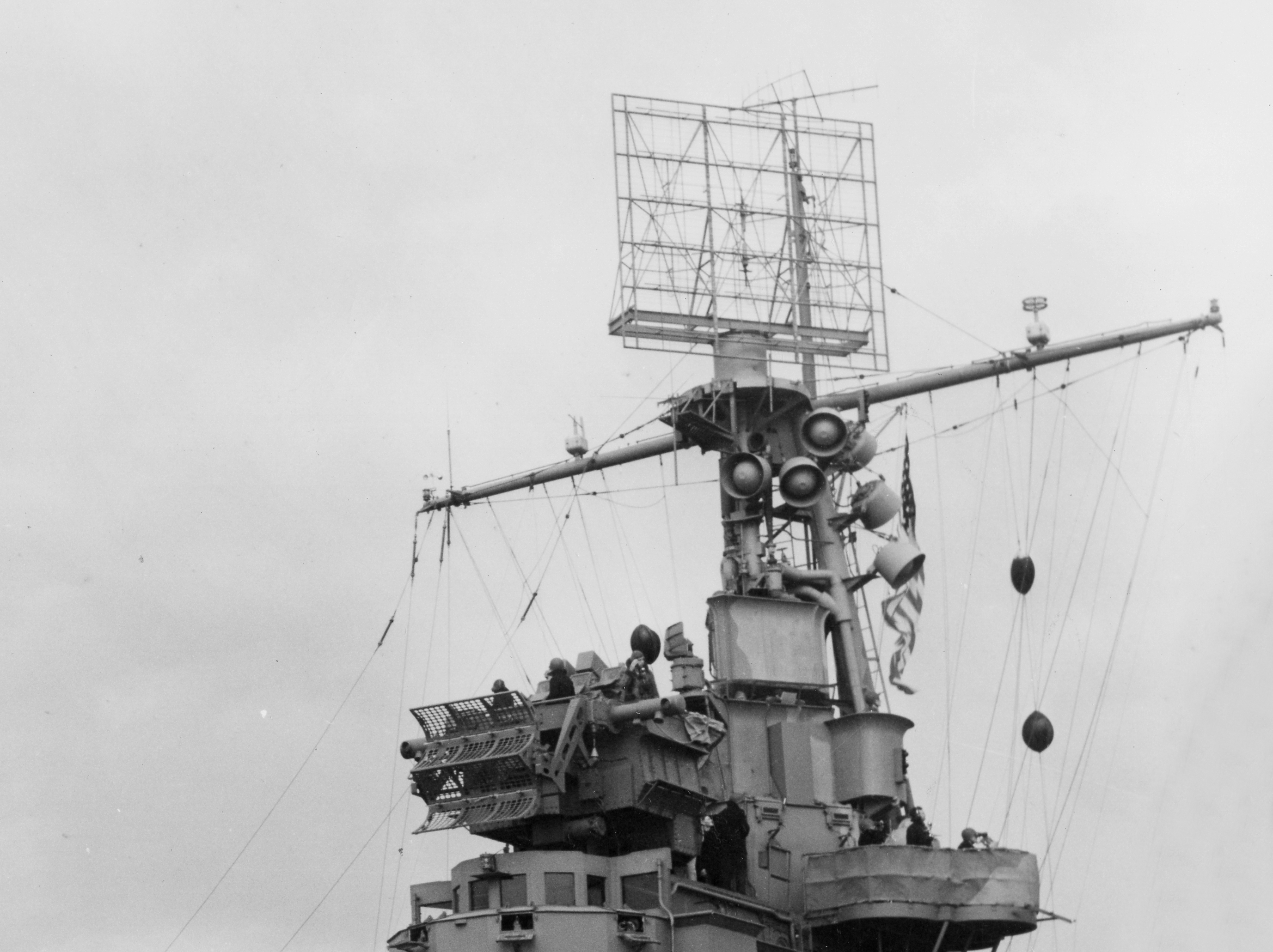 View of the island of the U.S. Navy aircraft carrier USS Ranger (CV-4) on 8 November 1942, showing the CXAM-1 radar antenna and the Mark 33 gun director with Mark 4 radar antenna.